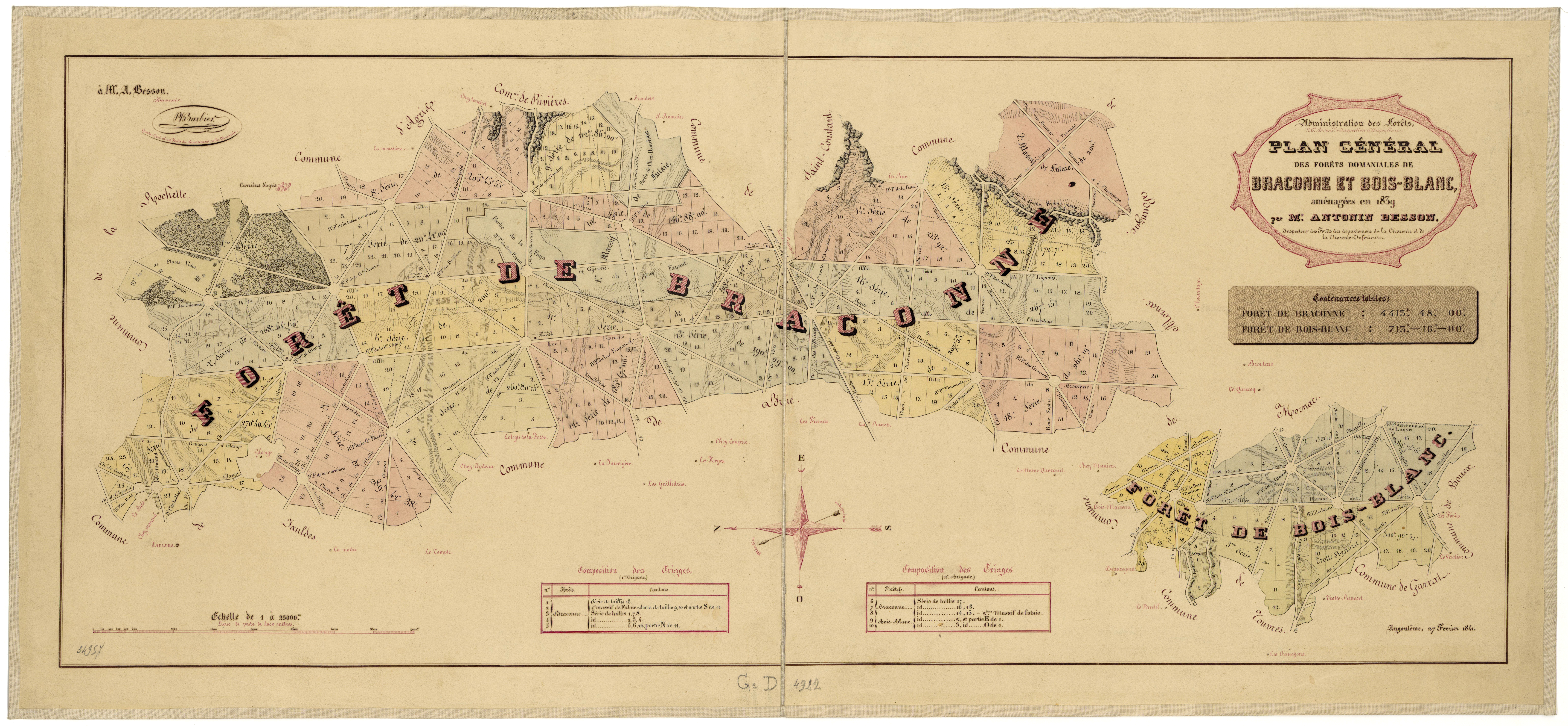 General map of the forests of Braconne and Bois-blanc, renewed in 1839, by Antoine Besson, Inspecteur de forêts. Angoulême, 1841.